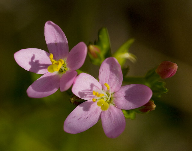 Common Centaury - Centaurium erythraea Flora and fauna of the Velvet Trail at Birkdale on the Sefton Coast (Very small flowers ~ 1cm across)